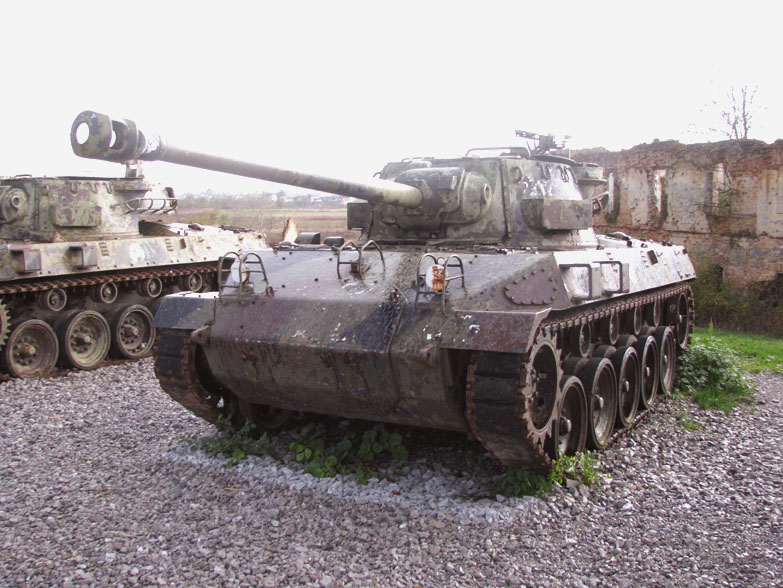 M18 Hellcat (Turanj, Karlovac, Croatia)